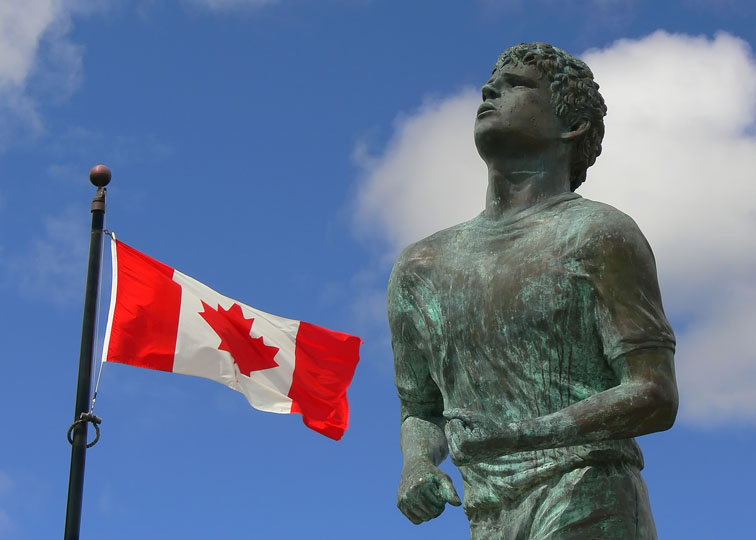 The official Terry Fox memorial statue at Thunder Bay, Ontario, Canada.